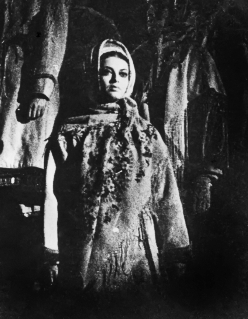 Yaroslava Mosiychuk